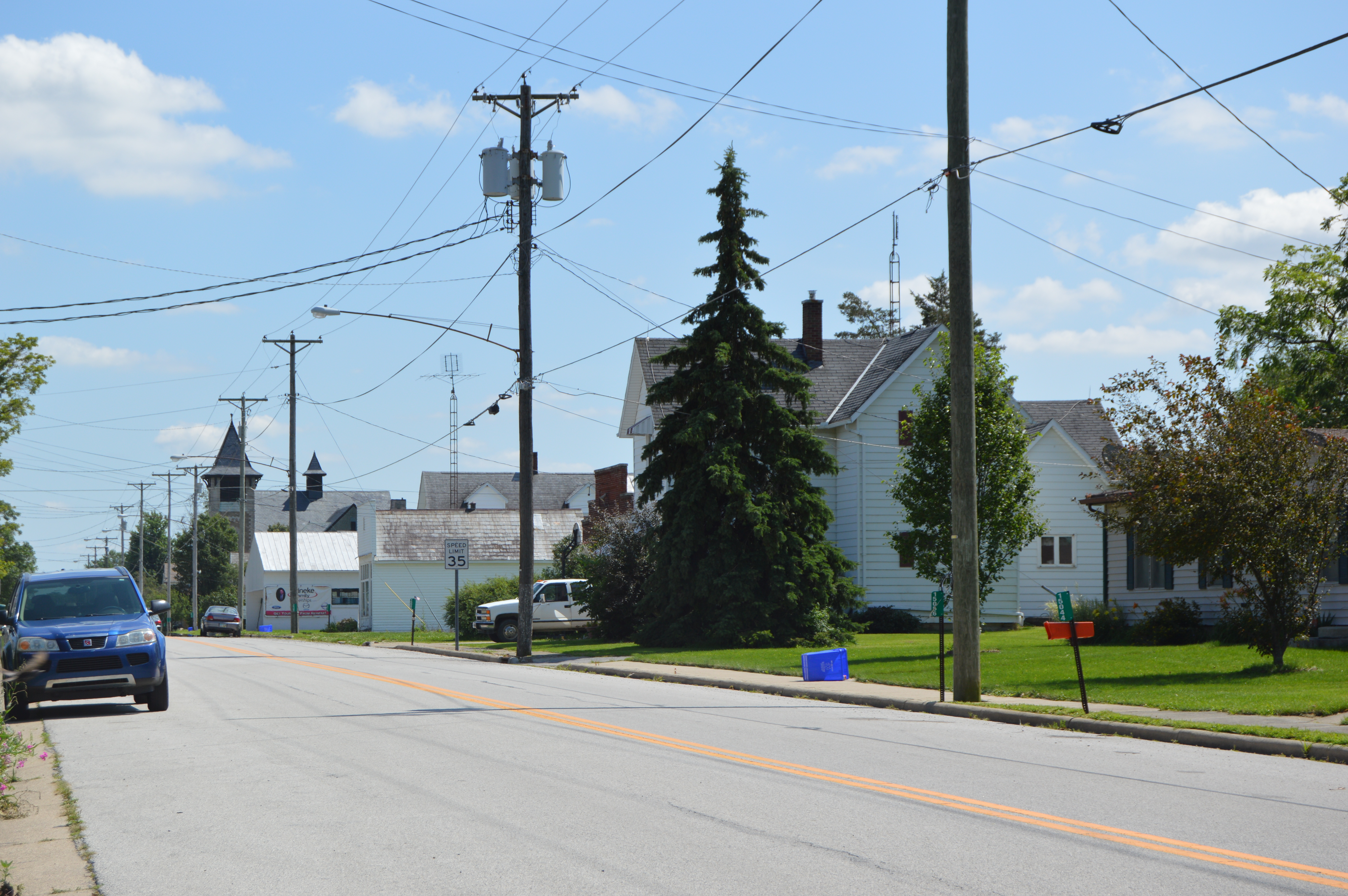 Looking south on Main Street (State Route 116) from the Plum Street intersection in Venedocia, Ohio, United States.